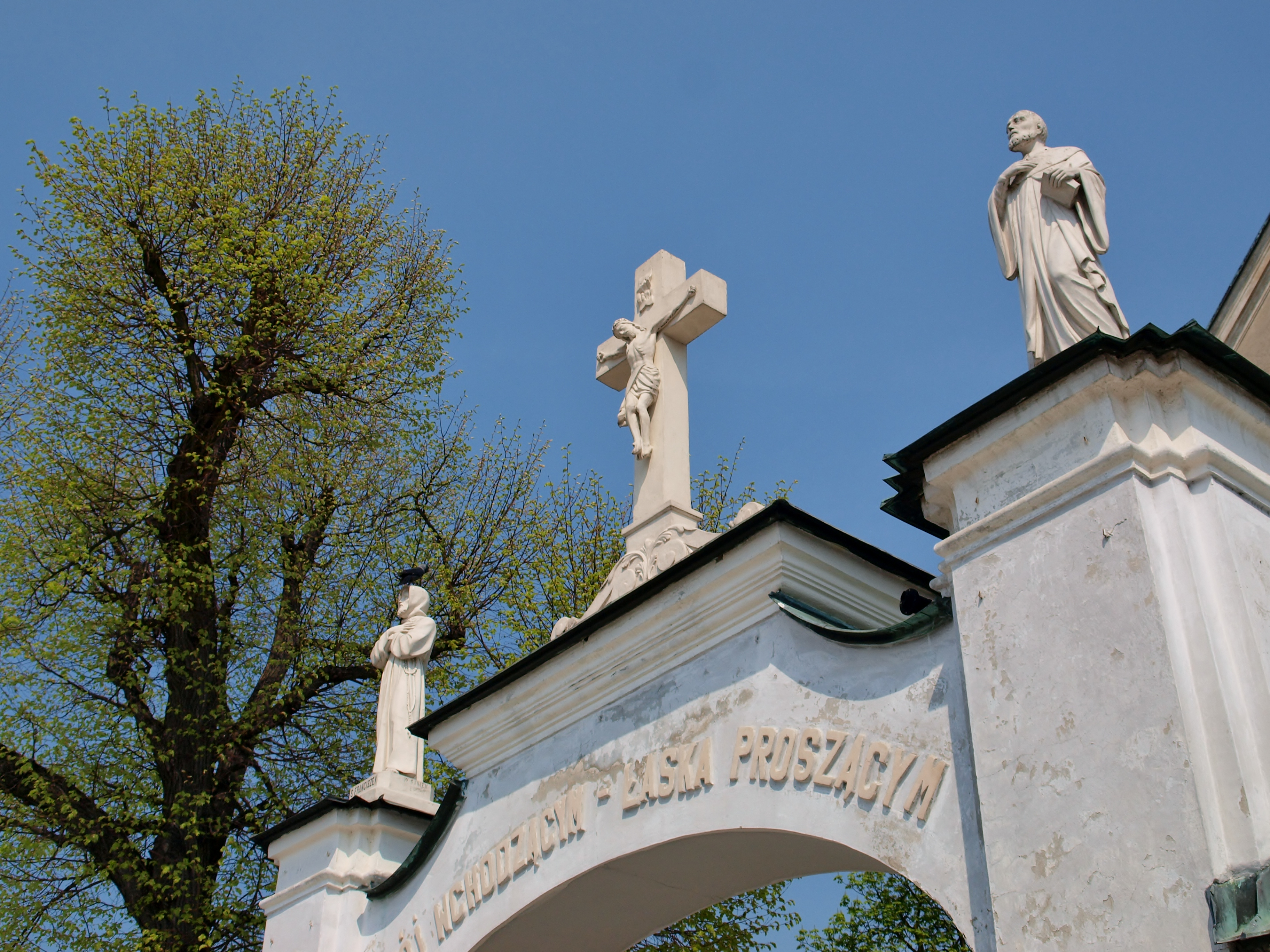 Gręboszów - gate to the courtyard of the parish church of the Assumption of the Blessed Virgin Mary "PEACE FOR THE ENTERING - GRACE FOR THE SEEKING"